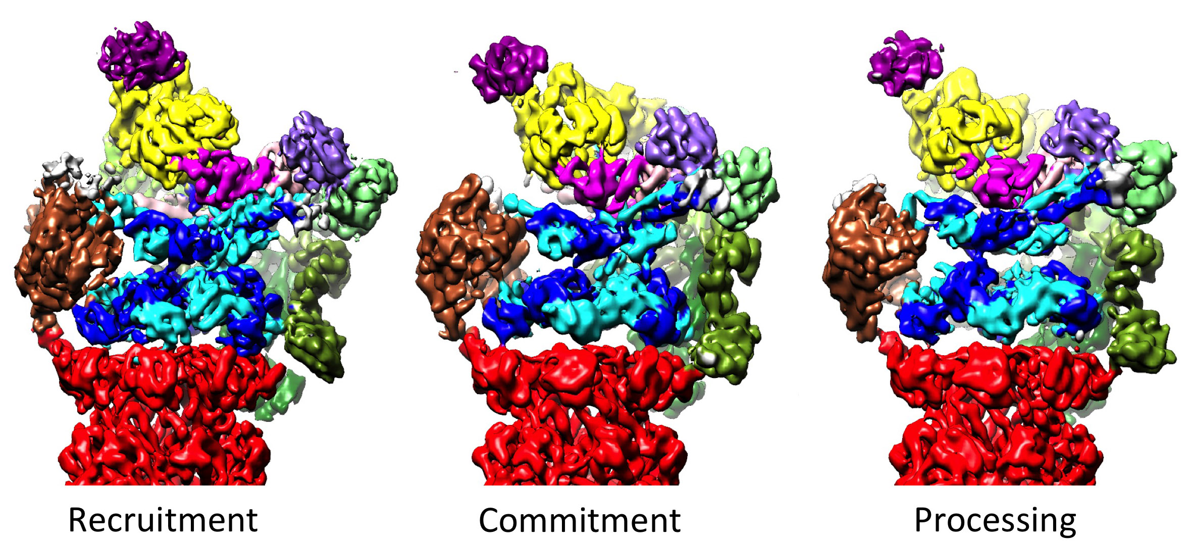 Three major conformational states of the enzyme complex 26S proteasome as determined by electron cryomicroscopy